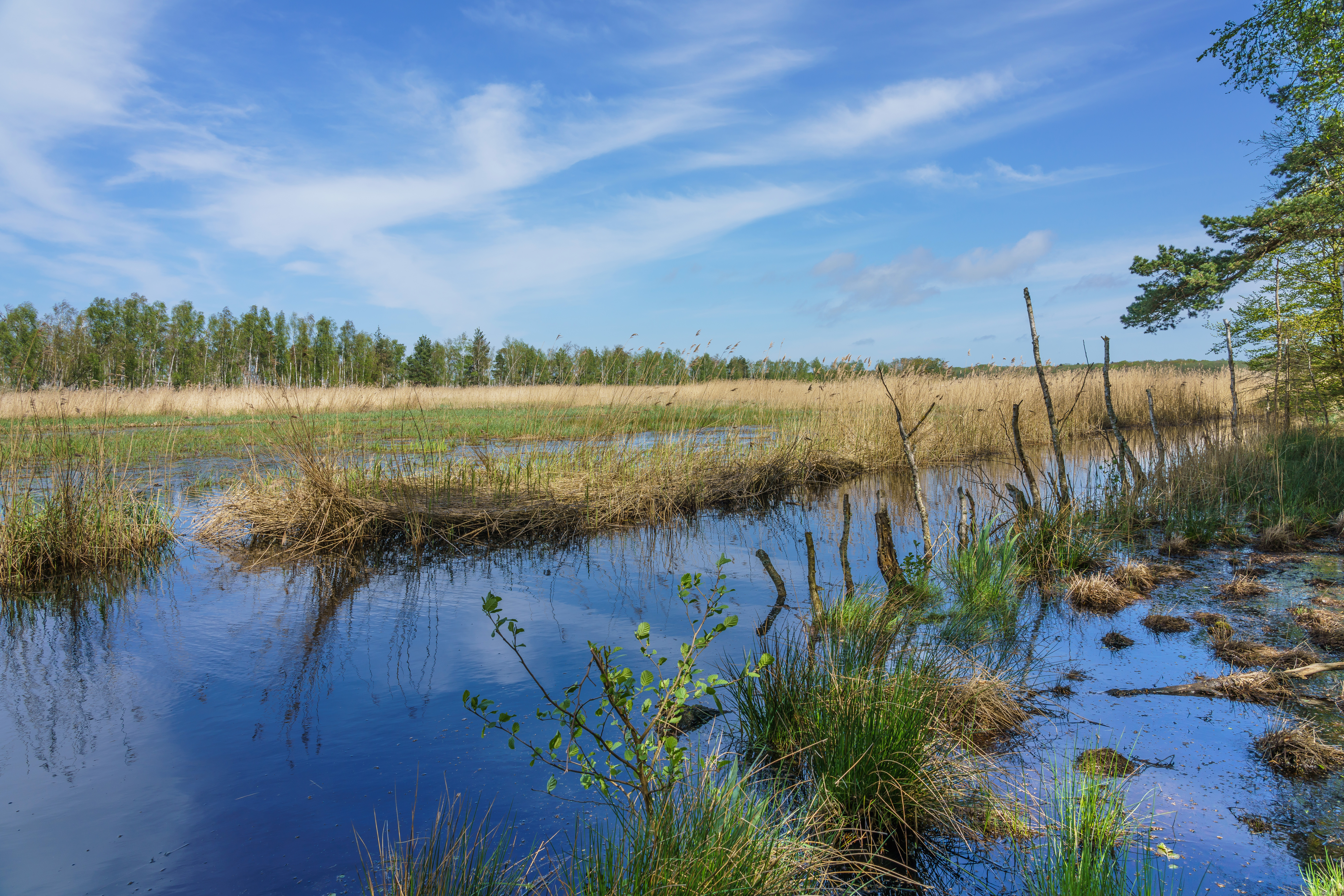 Protected area near Markgrafenheide in Rostock, Germany